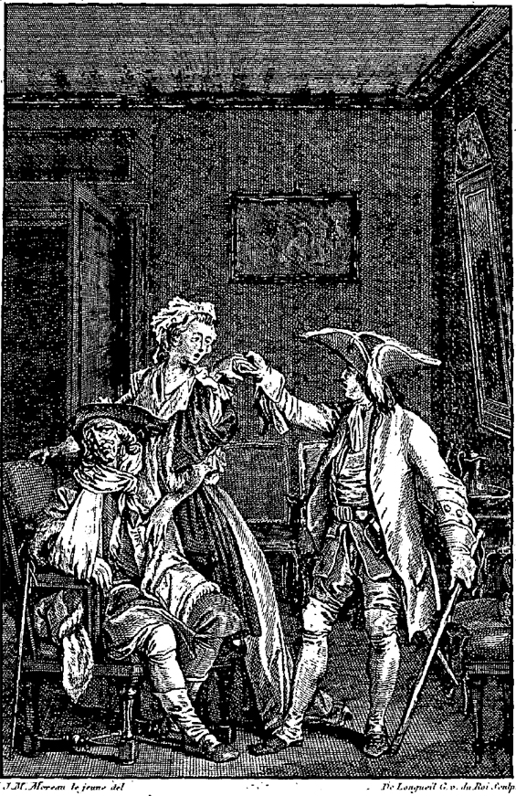 Illustration of Jean-François Regnard's The Residuary Legatee